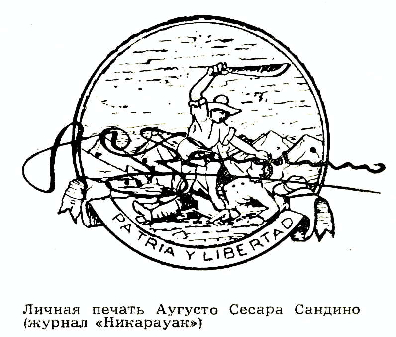 Stamp of Sandino